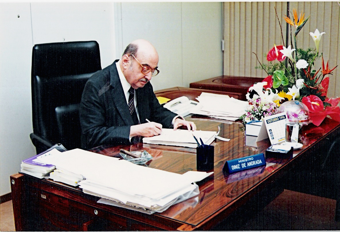 Jose Bonifacio Diniz de Andrada (1928 - 2002), a brazilian politician, jurisconsult, lawyer and electoral judge - at his office in 1996.